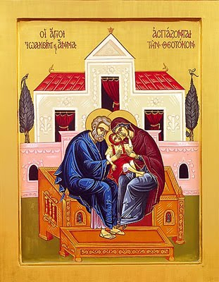 An icon of st. Joachim and Anna